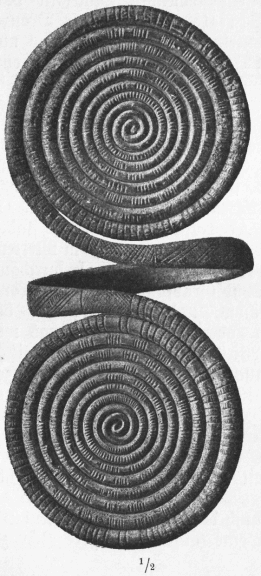 Handberge, an arm ring/armlet from the Bronze age, found in Alt Sammit, Mecklenburg Illustration from Robert Beltz: Die Gräber der älteren Bronzezeit in Meklenburg : erster Theil. In: Verein für Mecklenburgische Geschichte und Altertumskunde: Jahrbücher des Vereins für Mecklenburgische Geschichte und Altertumskunde. - Bd. 67 (1902), S. 83-196